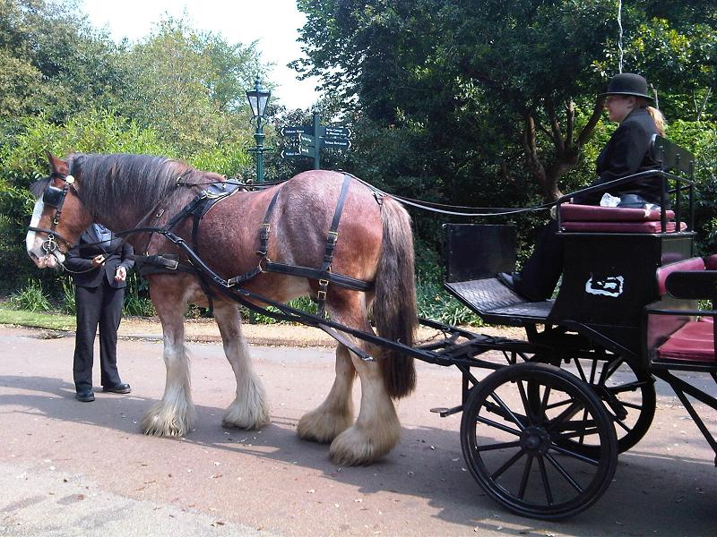 Shire horse on Isle of Wight, England.